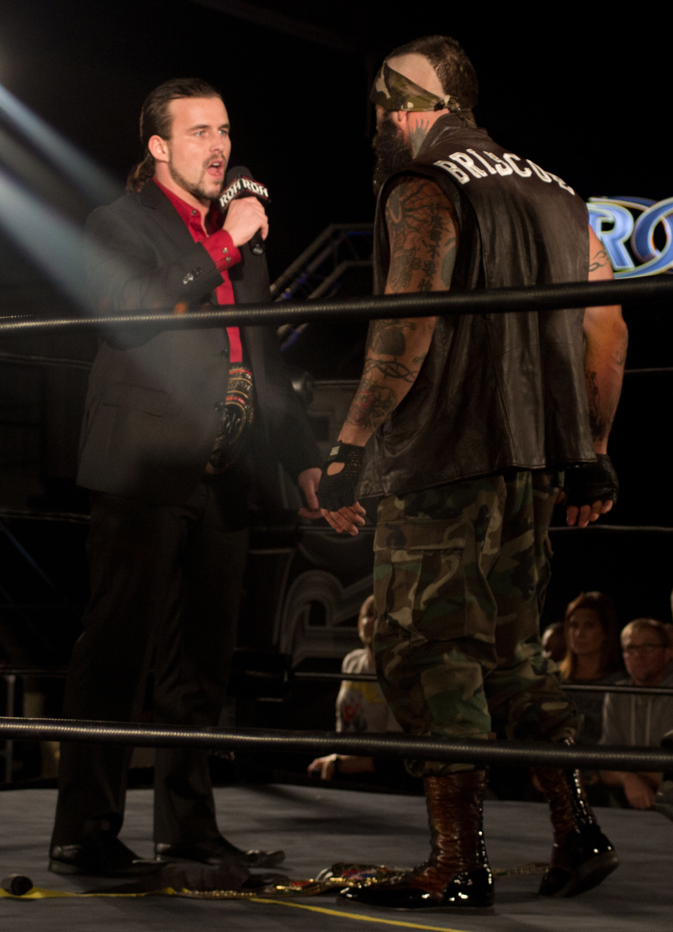 ROH World Champion Adam Cole (left) confronts Jay Briscoe (right), at ROH's first event in Nashville, TN in January 2014. Cropped from original image.